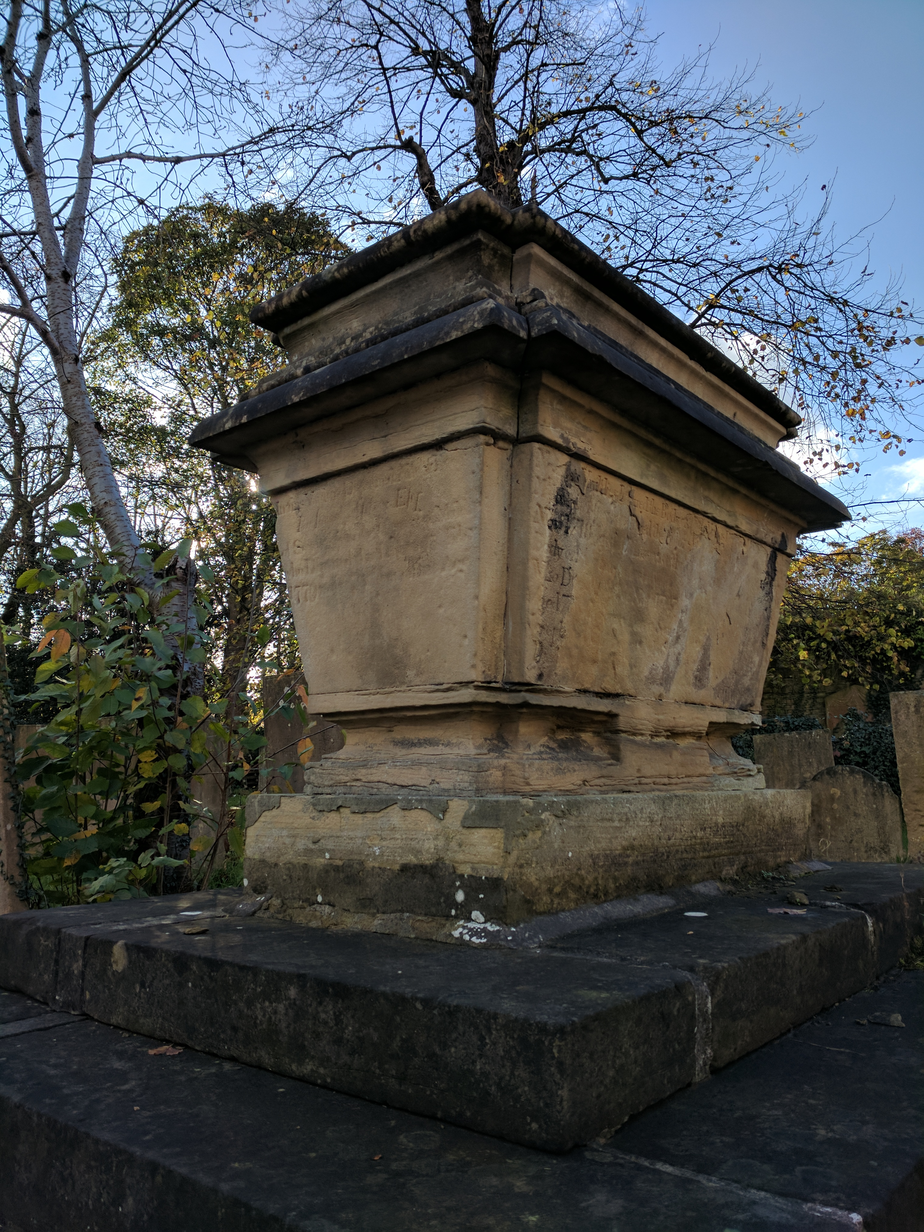 Sarcophagus 10 Metres South Of South Porch At Church Of St Edmund Wikidata has entry Q26543914 with data related to this item.